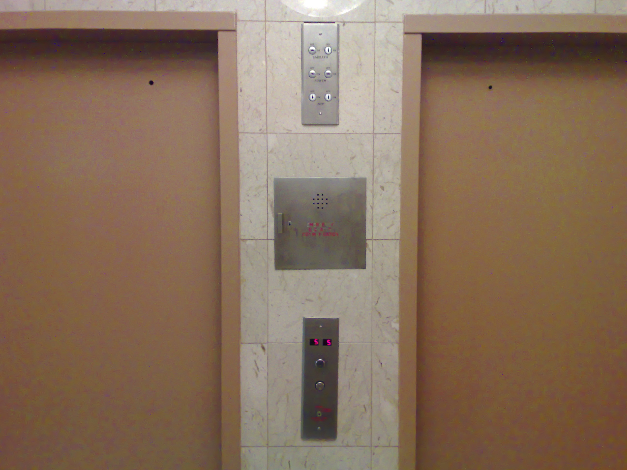 Photo of outside elevator doors and wall column with power key-switches and the call buttons for a Sabbath elevator.